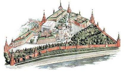 Overview map of the Moscow Kremlin. Location of Uglovaya Arsenalnaya Tower marked.